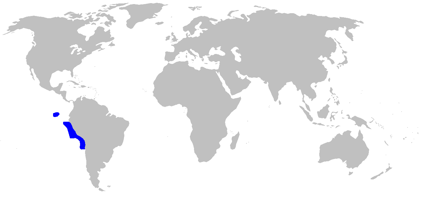 Distribution map for Triakis maculata